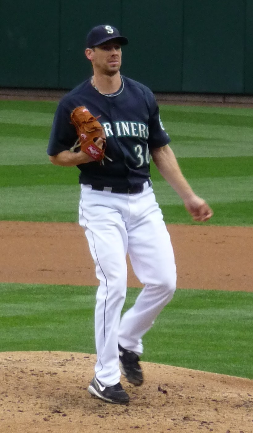 Cliff Lee takes the mound against Cincinnati 18:33, 20 June 2010 . . Galaksiafervojo . . 819×1,401 (224 KB)